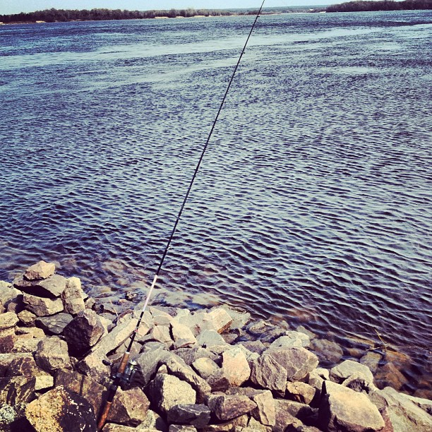 "Fishing". An example of iPhoneography. Author - Alexander Kostenko